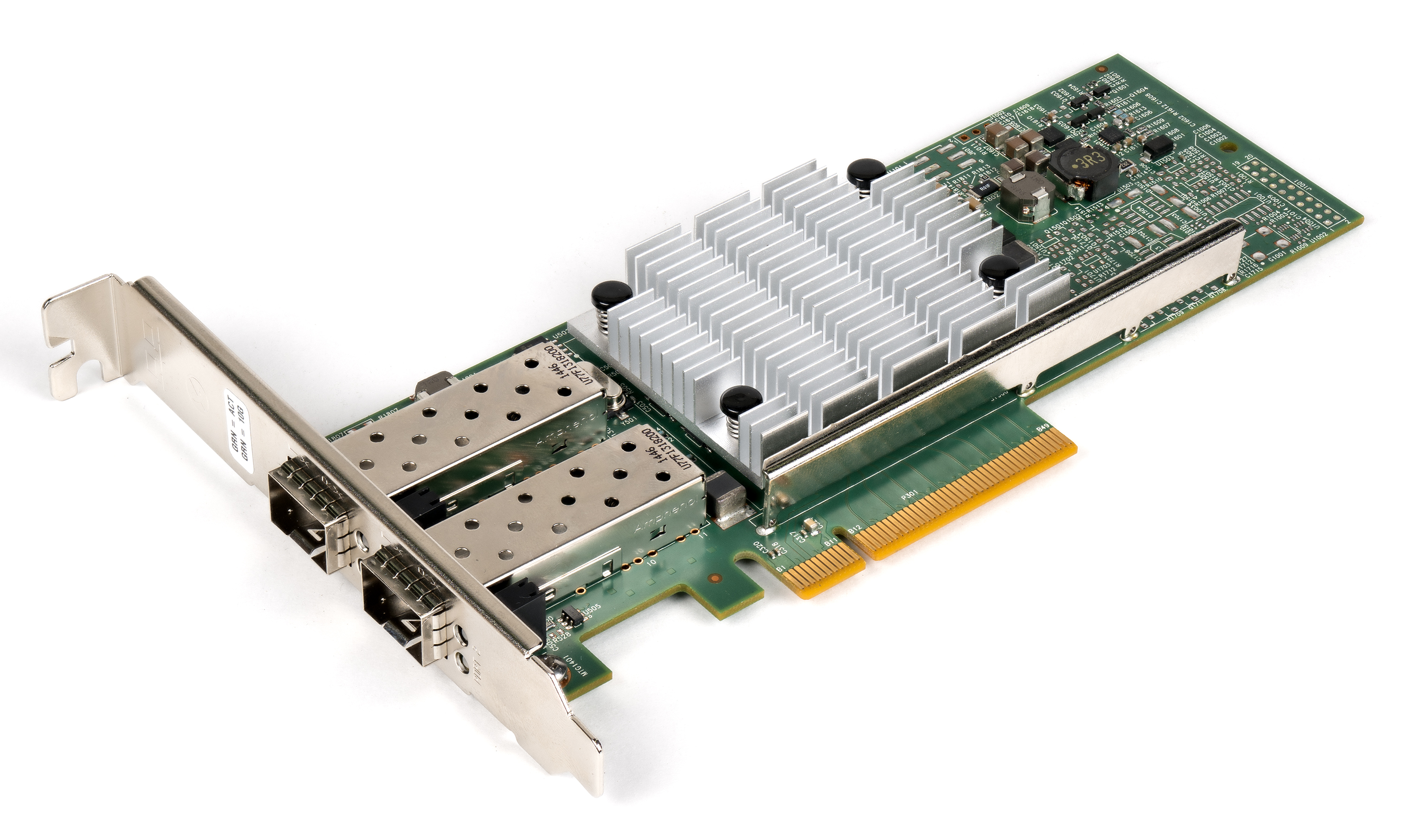 Qlogic QLE3442-CU, dual port 10 Gigabit Ethernet NIC, PCIe 3.0 x8 card. Two SFP+ connectors.